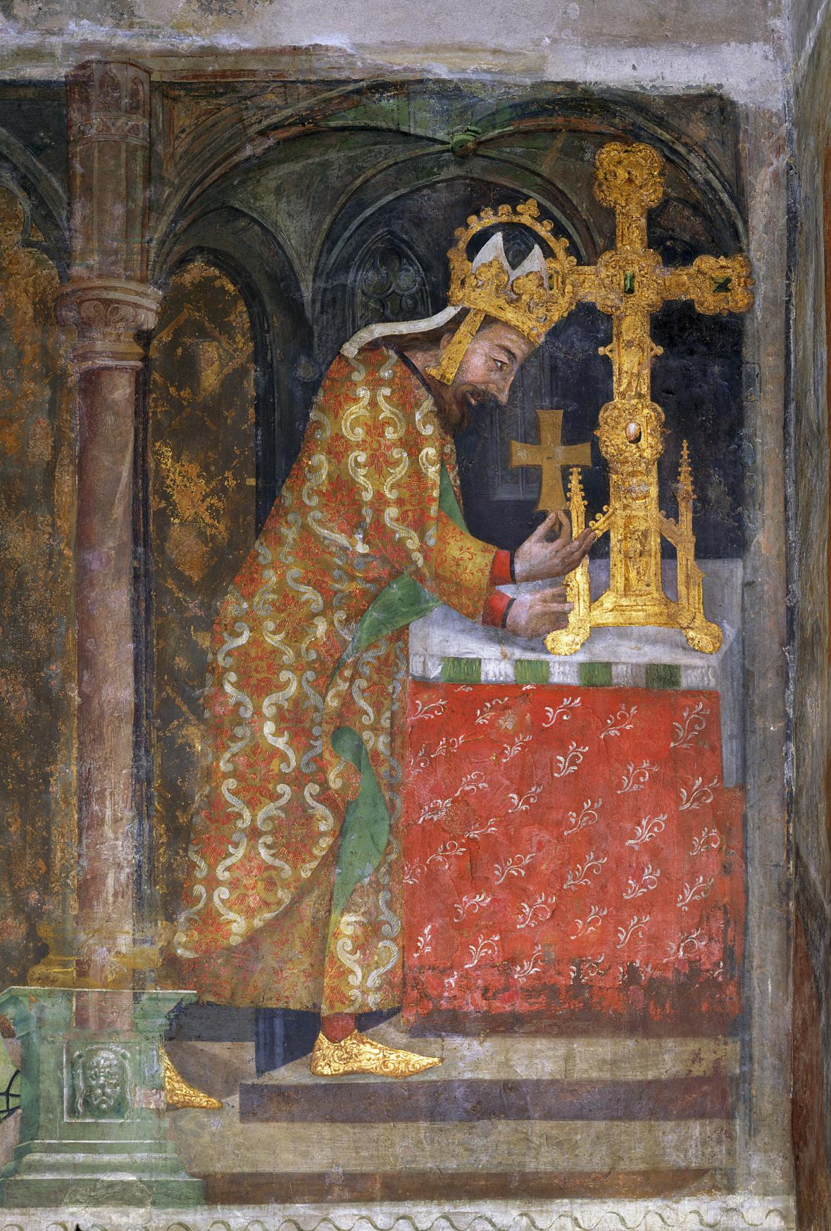 Charles IV, third remains scene.